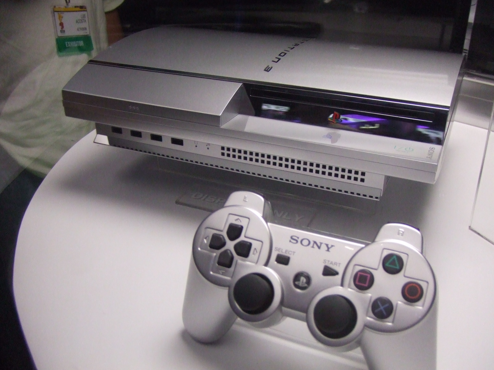 PlayStation 3 and Wireless Controller (SIXAXIS) at E3 2006